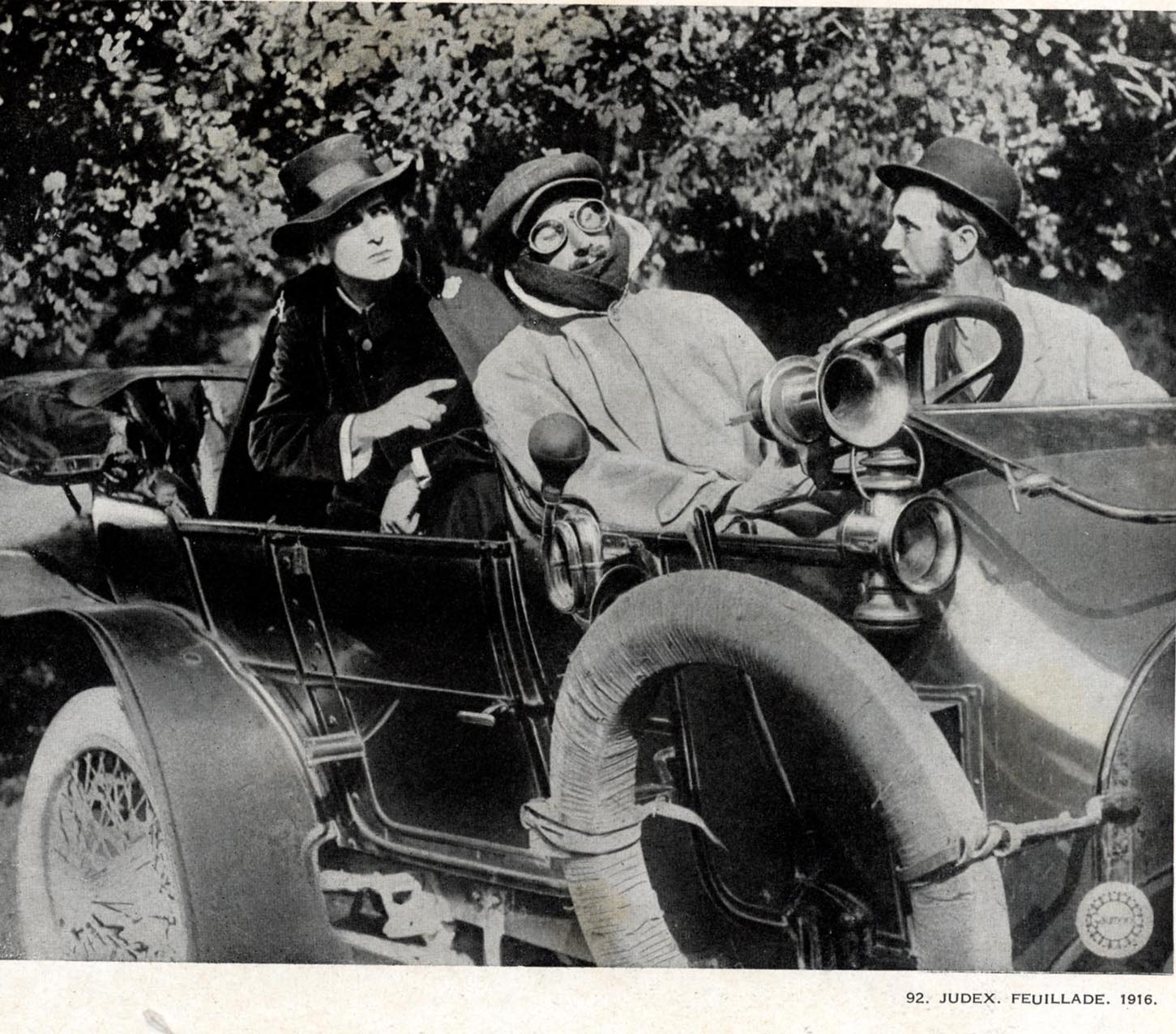 Screenshot from the serial film Judex (1916) by Louis Feuillade.